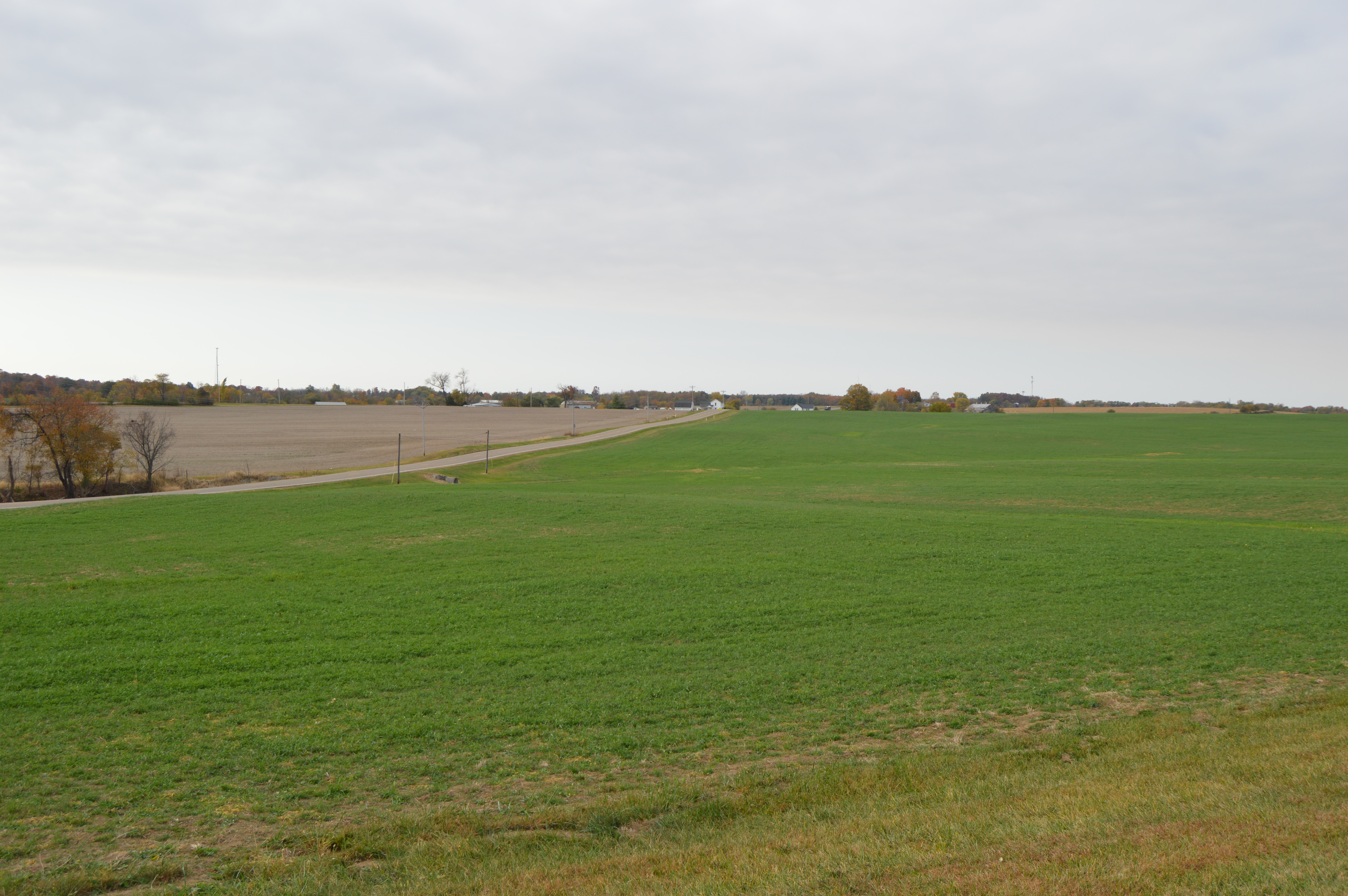 Looking southwest from Dillon Road (just west of State Route 188, visible in the distance) over a newly sprouted field of winter wheat in far southwestern Amanda Township, Fairfield County, Ohio, United States.